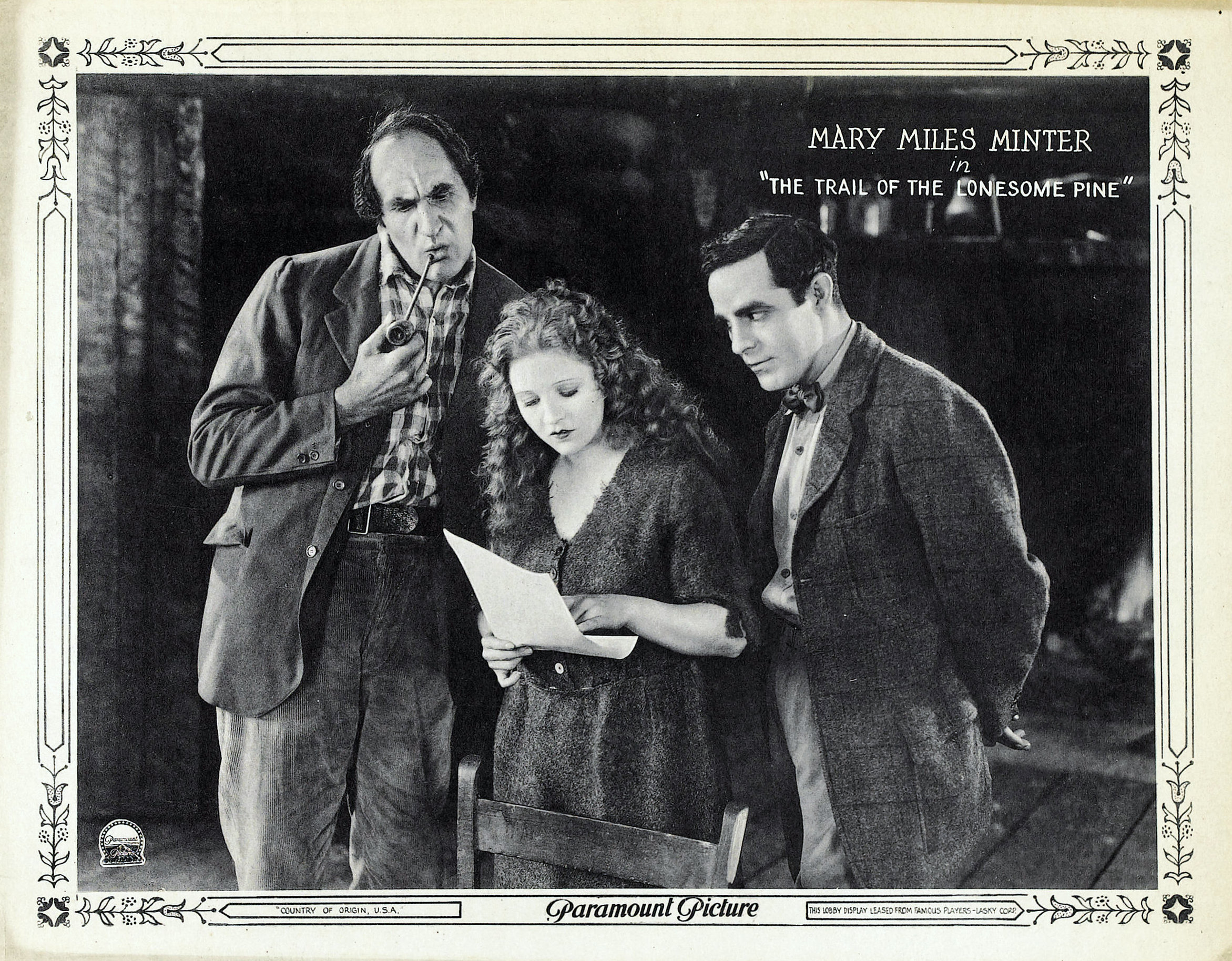 The Trail of the Lonesome Pine is a 1923 American silent drama film directed by Charles Maigne. This 1923 lobby card is clearly marked as published in the USA but with no copyright notice at all, thus public domain.